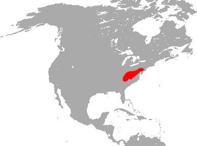 Range of Neotoma magister (Allegheny woodrat